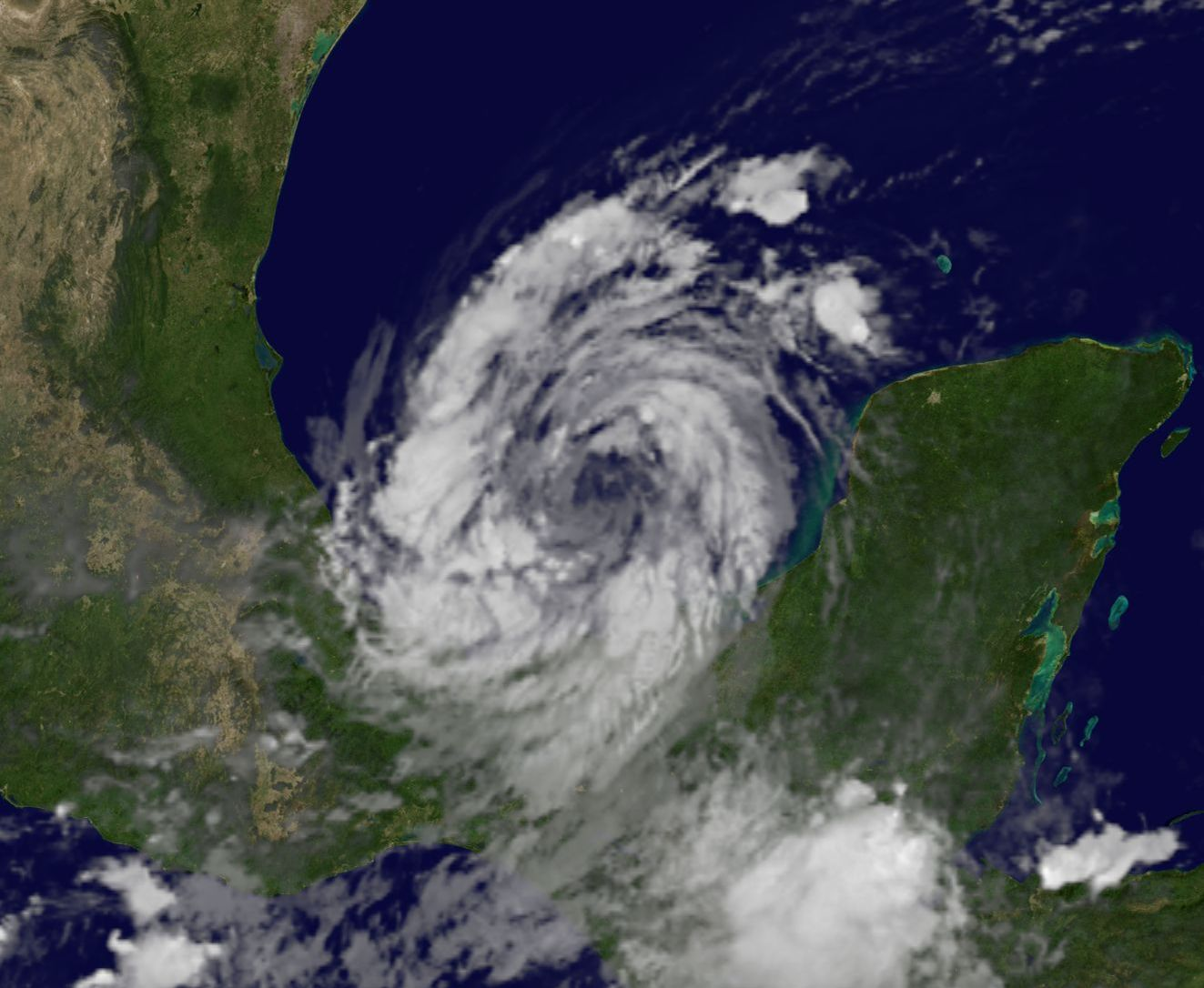 View of Tropical Storm Nate from the Goes-13 East NASA satellite on 10 September 2011 at 0515 UTC.